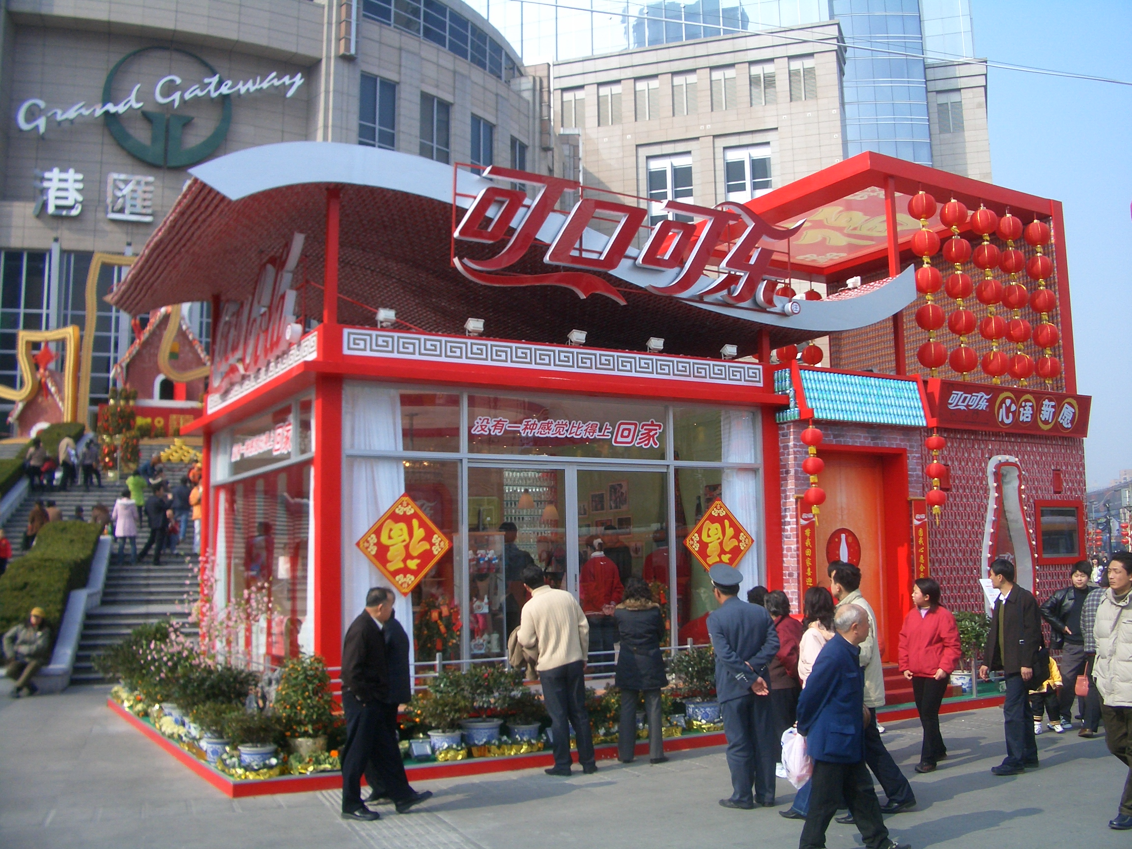 Coca-Cola set up a small store in front of Grand Gateway Mall to celebrate Chinese New Year.